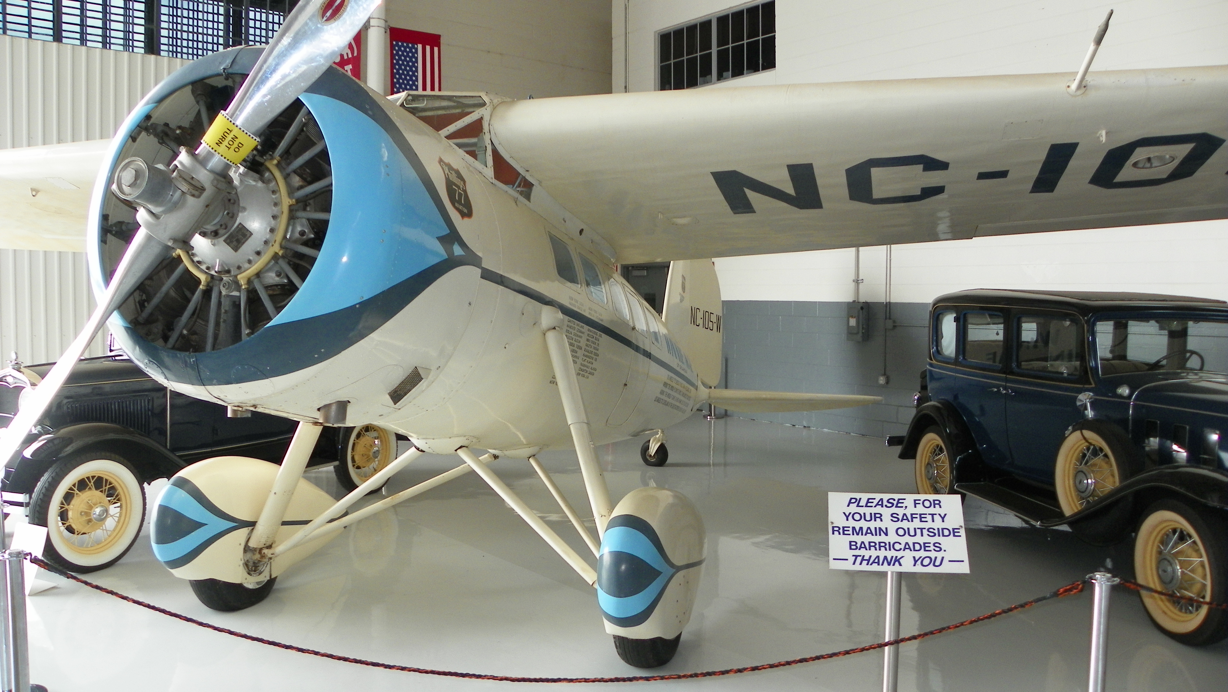 Original 1929 Lockheed Vega restored to the colors of Wiley Post's Winnie Mae.